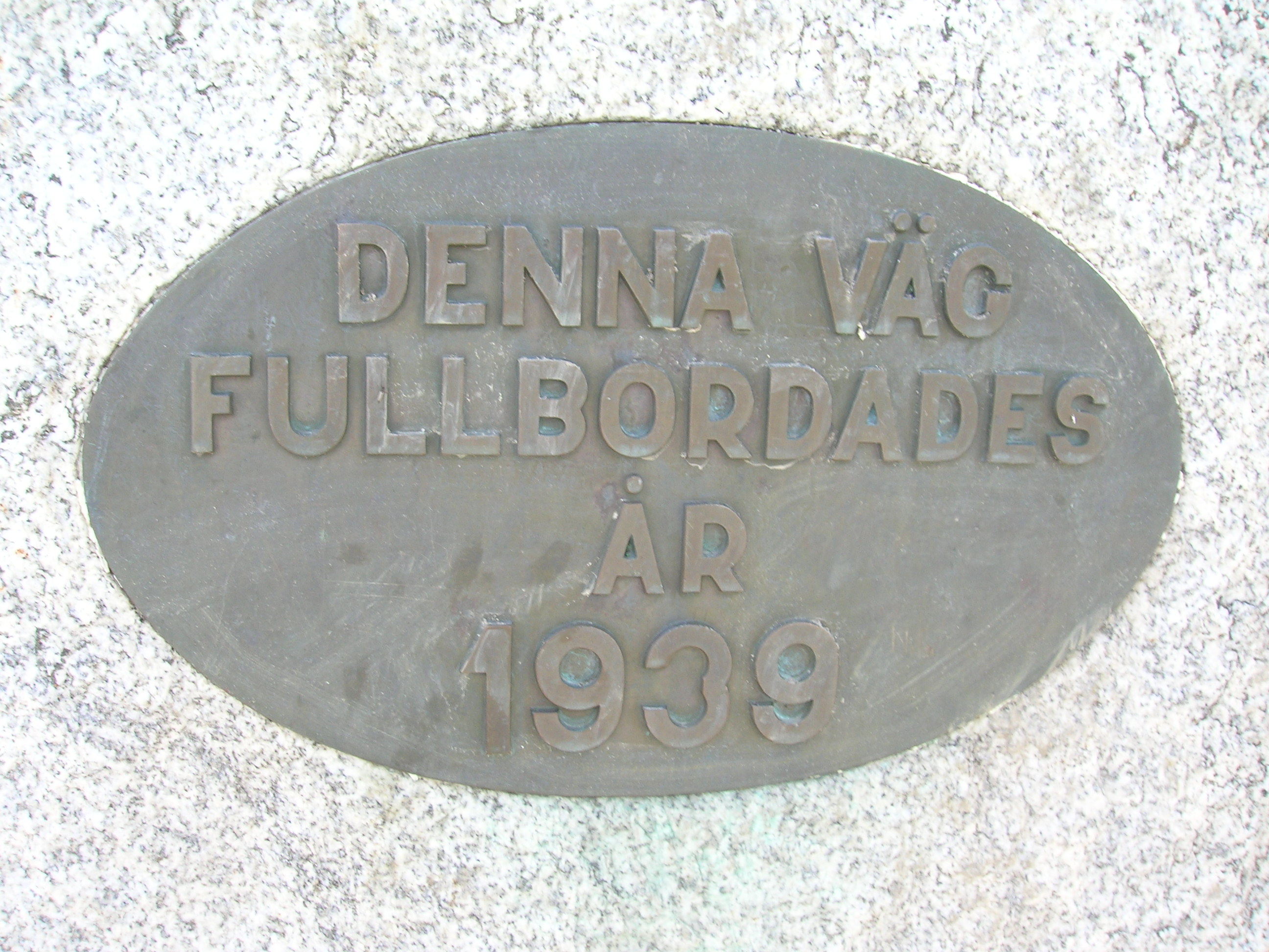 Border stone on the border between Norway and Sweden on European route E12. The inscription states that «This road was finished [in the] Year 1939» Photo on 10 August, 2008 with a Nikon Coolpix 5600 5,1 Megapixel camera.